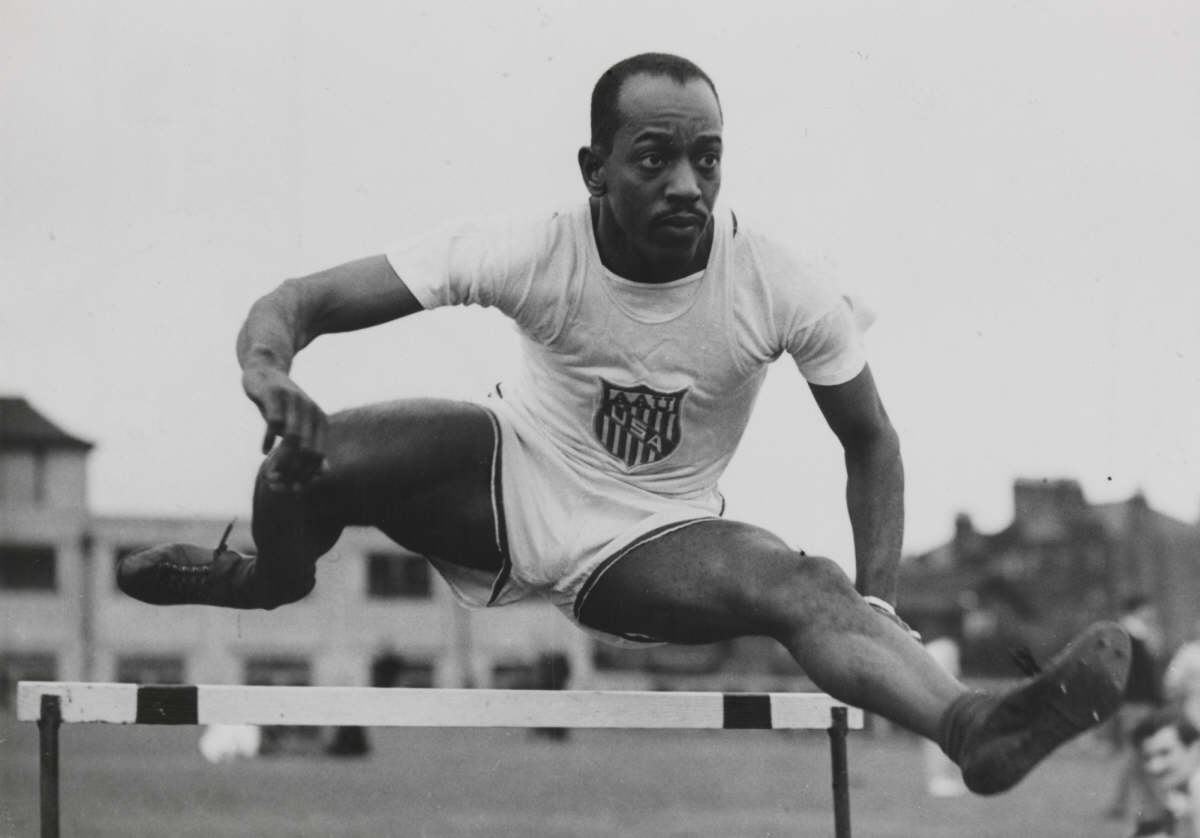 Harrison Dillard (b. 1923) is one of only two men to win Olympic titles in both sprinting and hurdling. In 1948 he took Gold in the 100m event and in the Helsinki Olympics of 1952 he won gold in 110m Hurdles event setting an Olympic Record. Daily Herald Archive at the National Media Museum We're happy for you to share this digital image within the spirit of The Commons. Certain restrictions on high quality reproductions of the original physical version of apply though; if you're unsure please visit the National Media Museum website. For obtaining reproductions of selected images please go to the Science and Society Picture Library.